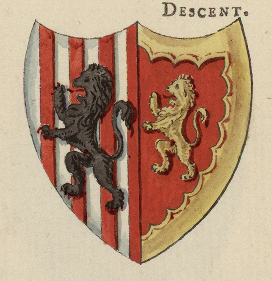 An image from a set of 8 extra-illustrated volumes of A tour in Wales by Thomas Pennant (1726-1798) that chronicle the three journeys he made through Wales between 1773 and 1776. These volumes are unique because they were compiled for Pennant's own library at Downing. This edition was produced in 1781. The volumes include a number of original drawings by Moses Griffiths, Ingleby and other well known artists of the period. Thomas Pennant (1726-1798)